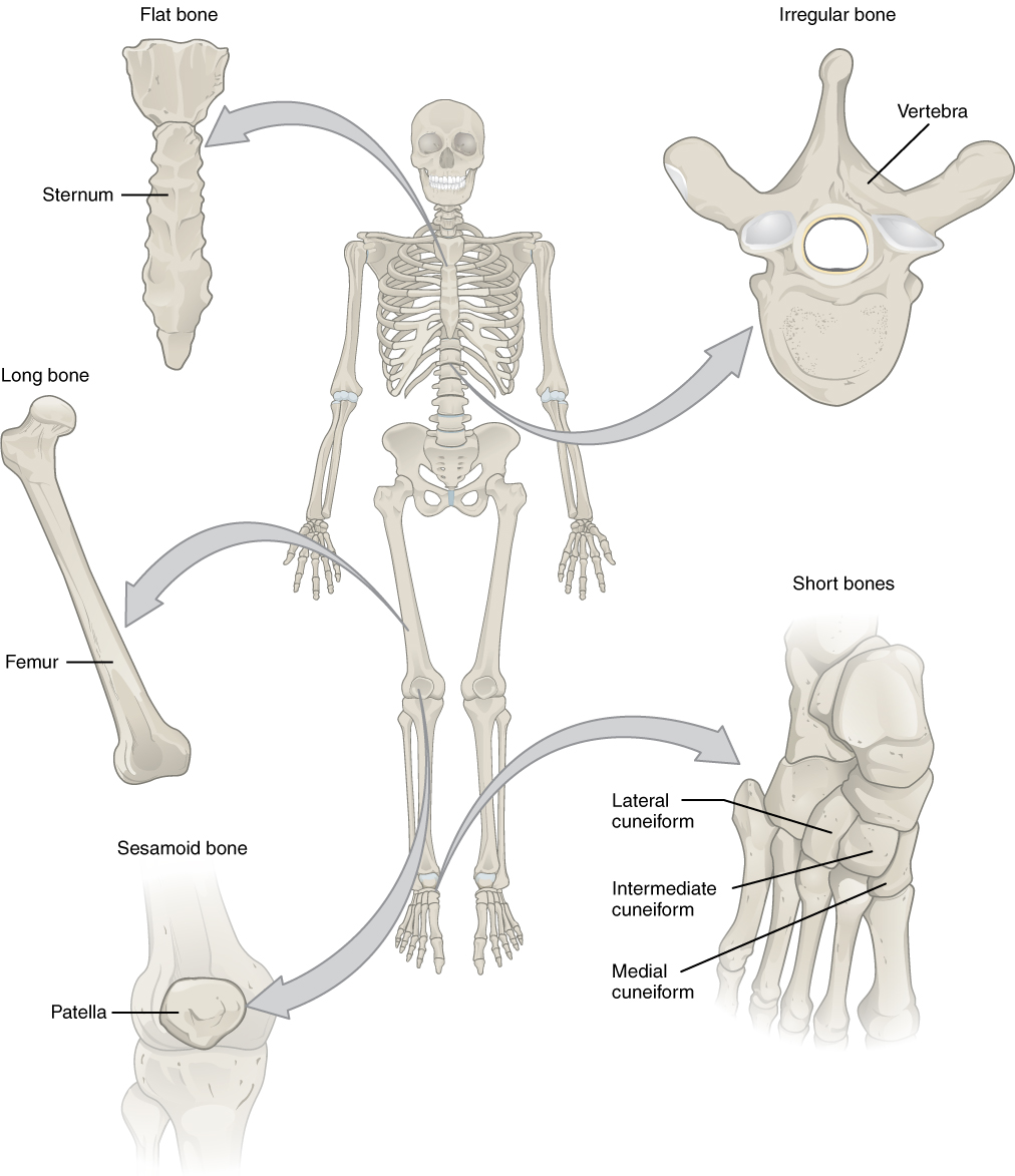 Illustration from Anatomy & Physiology, Connexions Web site. Jun 19, 2013.